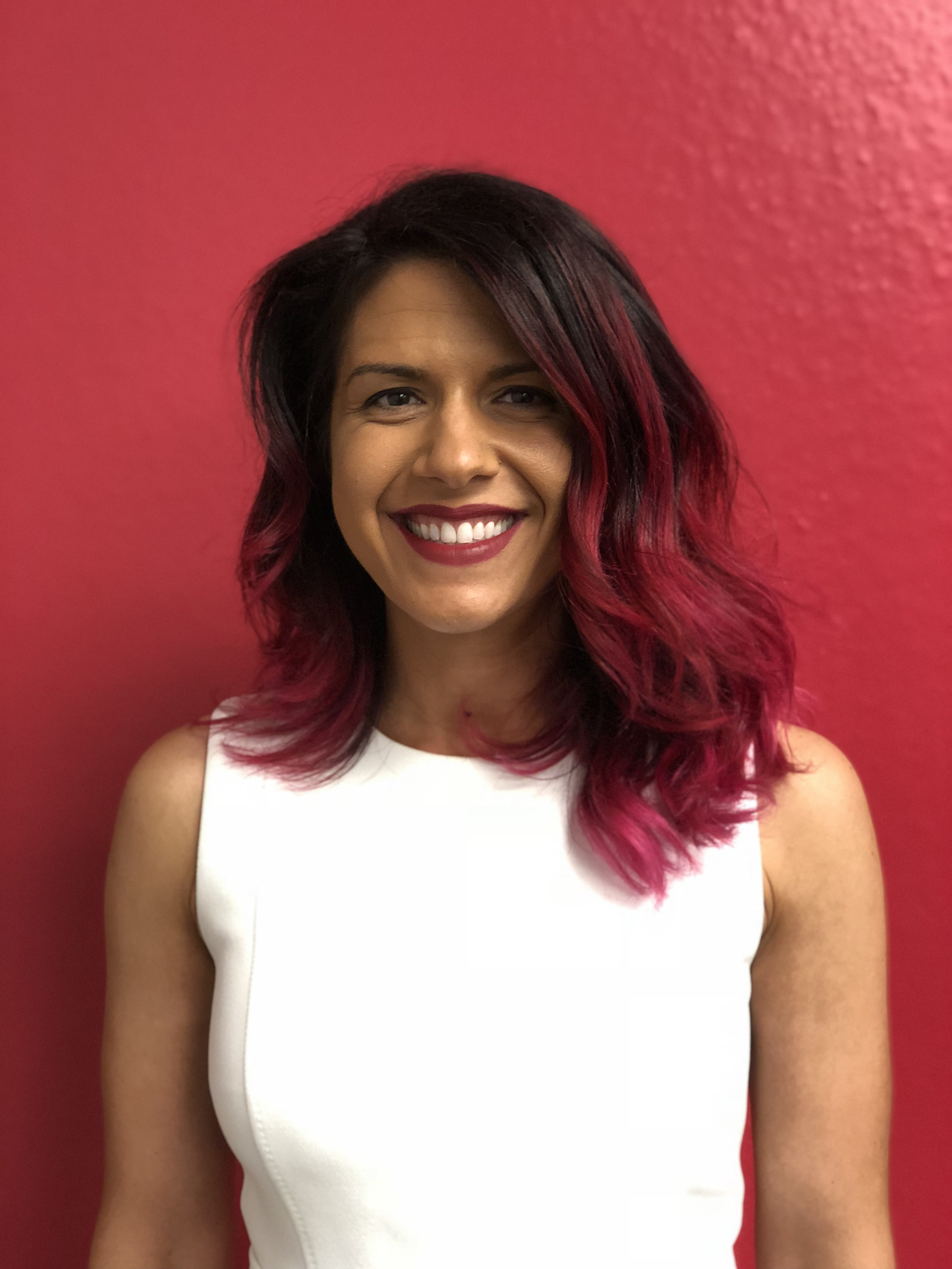 A profile picture of Parisa Tabriz at Blackhat USA 2017.